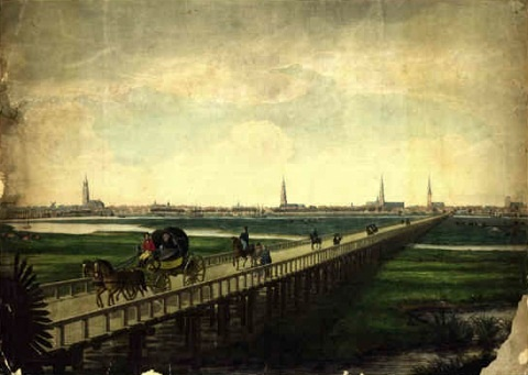 Louis Didier Jousselin, (1776-1858)) was a French engineer who built this bridge between Hamburg and Harburg